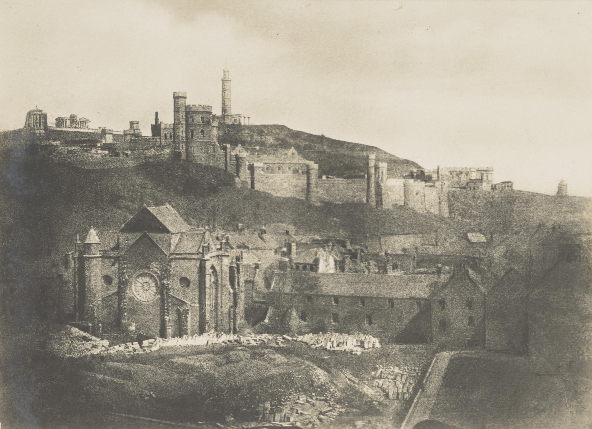 Trinity College Chapel and Hospital by David Octavius Hill and Robert Adamson Provenance unknown